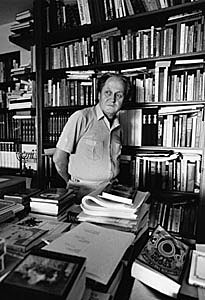 Ion Caraion